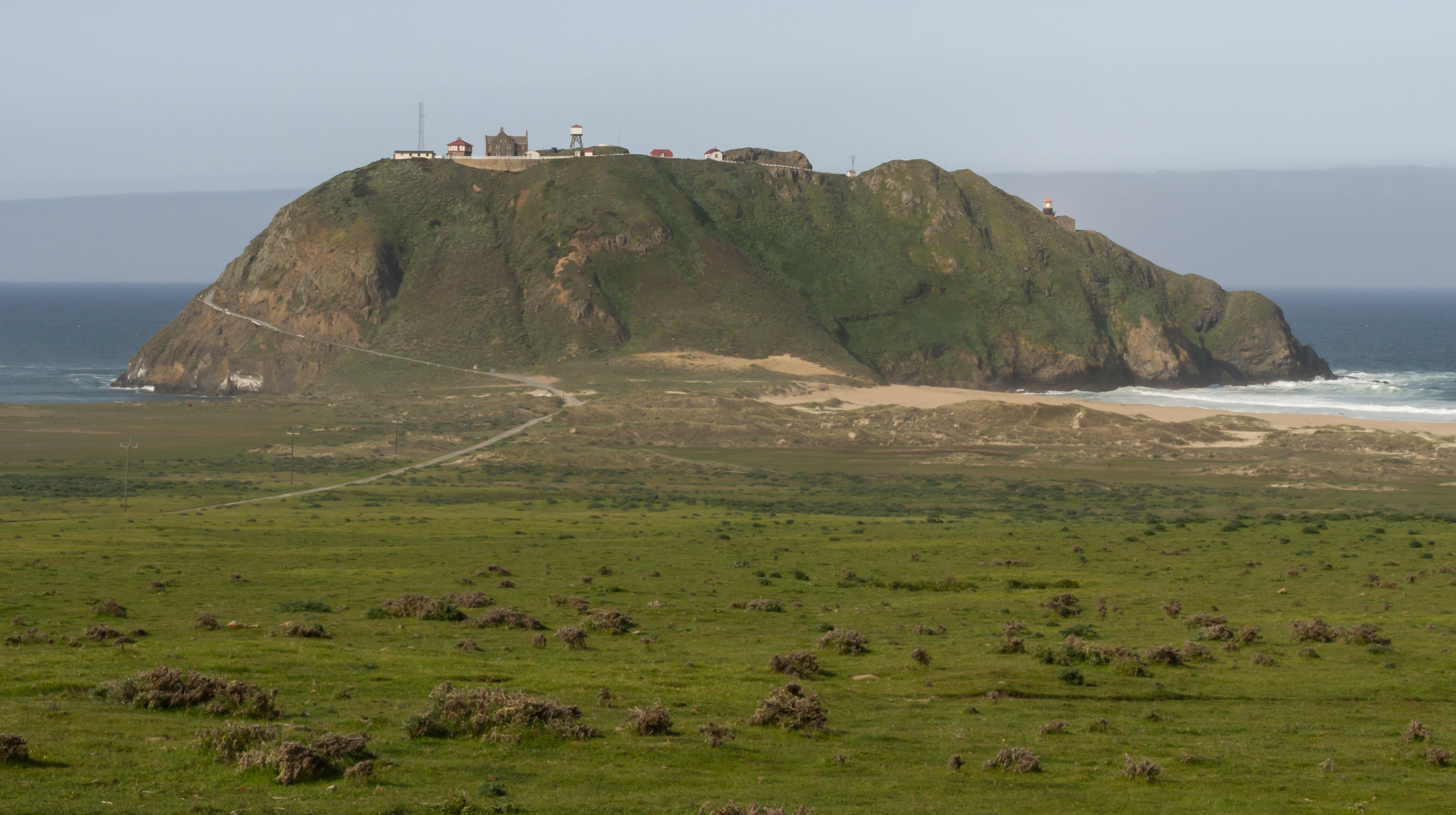 Point Sur Light Station, Monterey County, Big Sur, California, as seen from Highway 1 in early April 2013.